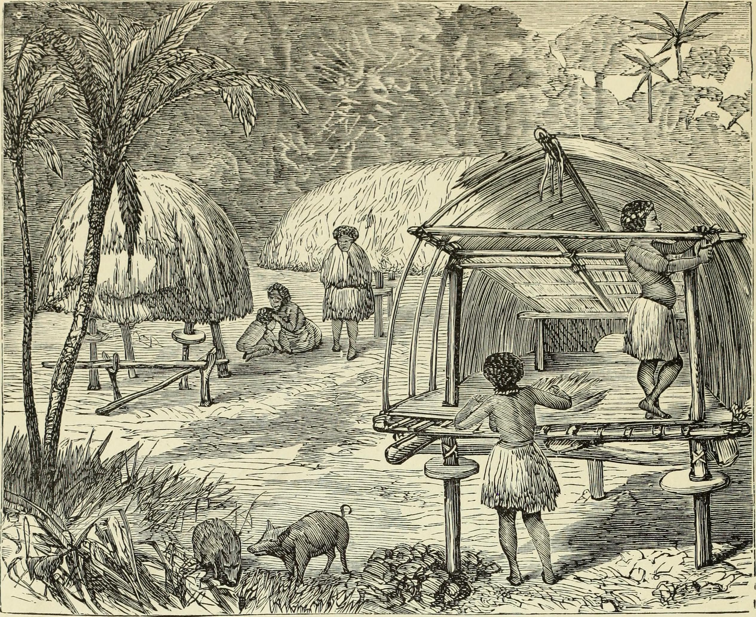 Title: The uncivilized races of men in all countries of the world; being a comprehensive account of their manners and customs, and of their physical, social, mental, moral and religious characteristics. By Rev. J. G. Wood... With new designs by Angas, Danby, Wolf, Zwecker... 1871 Year: 1871 (1870s) Authors: Wood, John George, 1827-1889 Subjects: Ethnology. Manners and customs. Savages Publisher: J. B. Burr and company Text Appearing Before Image: t, capture a village, and carry off theinhabitants into servitude. They do not,however, treat their captives badly, but feedthem well, and seem to consider thempartly in the light of domestic servants, andpartly as available capital, or as a means ofexchange when any of their own friendsare taken prisoners by hostile tribes. The government of the Dory tribes isnominally a delegated chieftainship, but inreality a sort of oligarchy. There is a cer-tain dignitary, called the Sultan of Tidore,under whose sway this part of the countryis supposed to be, and from him the chief ofthe Dory tribes receives his rank. Whenthe chief dies, one of his relatives goes toconvey the news to the Sultan, taking withhim a present of slaves and birds of para-dise as tokens of allegiance. This man isalmost always appointed to the vacant place,and is bound to pay a certain tribute ofslaves, provisions, and war canoes, the latterbeing employed in collecting the Sultanstaxes. Should he fail to comply with these Text Appearing After Image: (1.) HUTS, NEW GUINEA. (See page 912.)